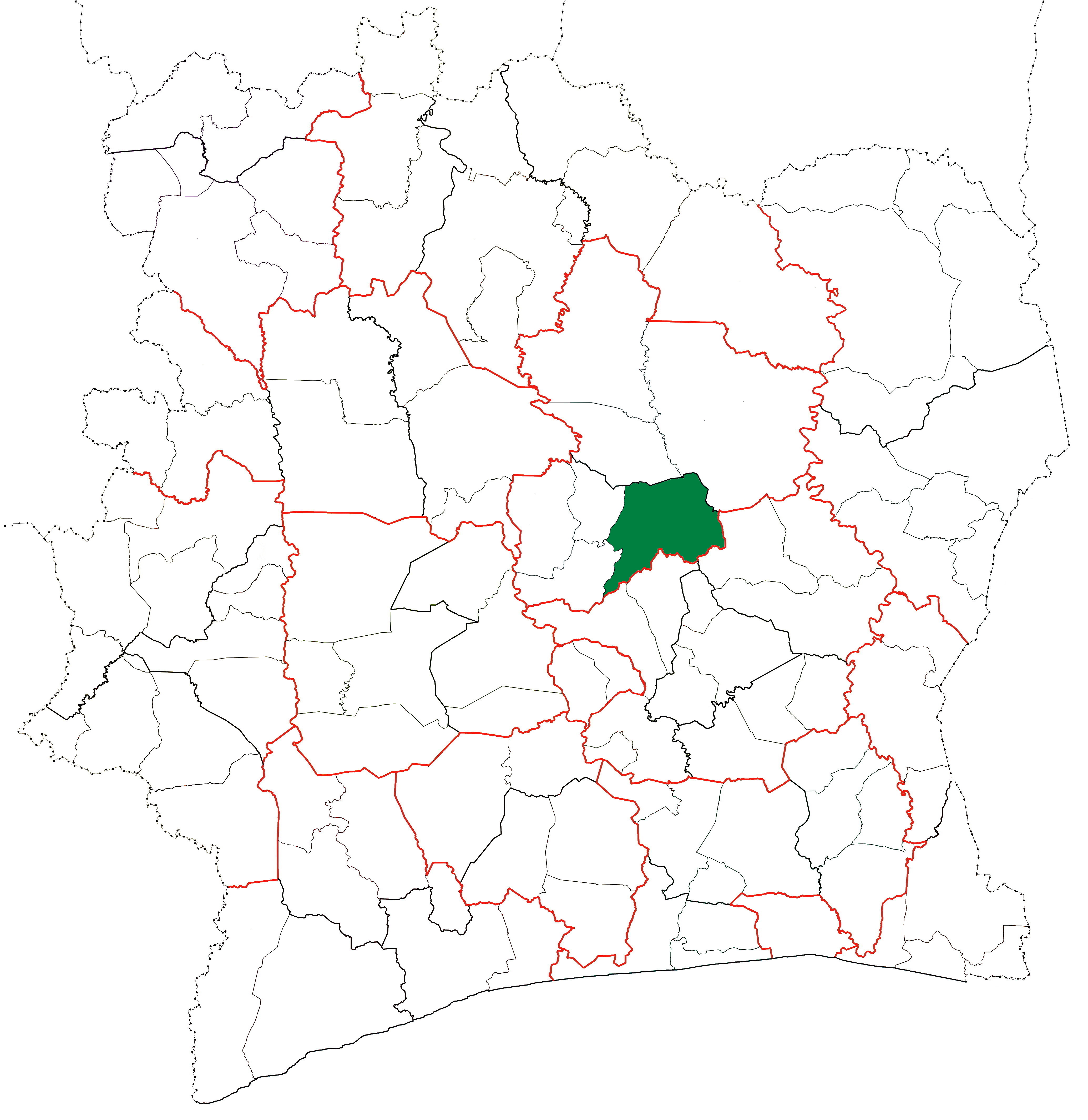 Locator map for Bouaké Department in Côte d'Ivoire.